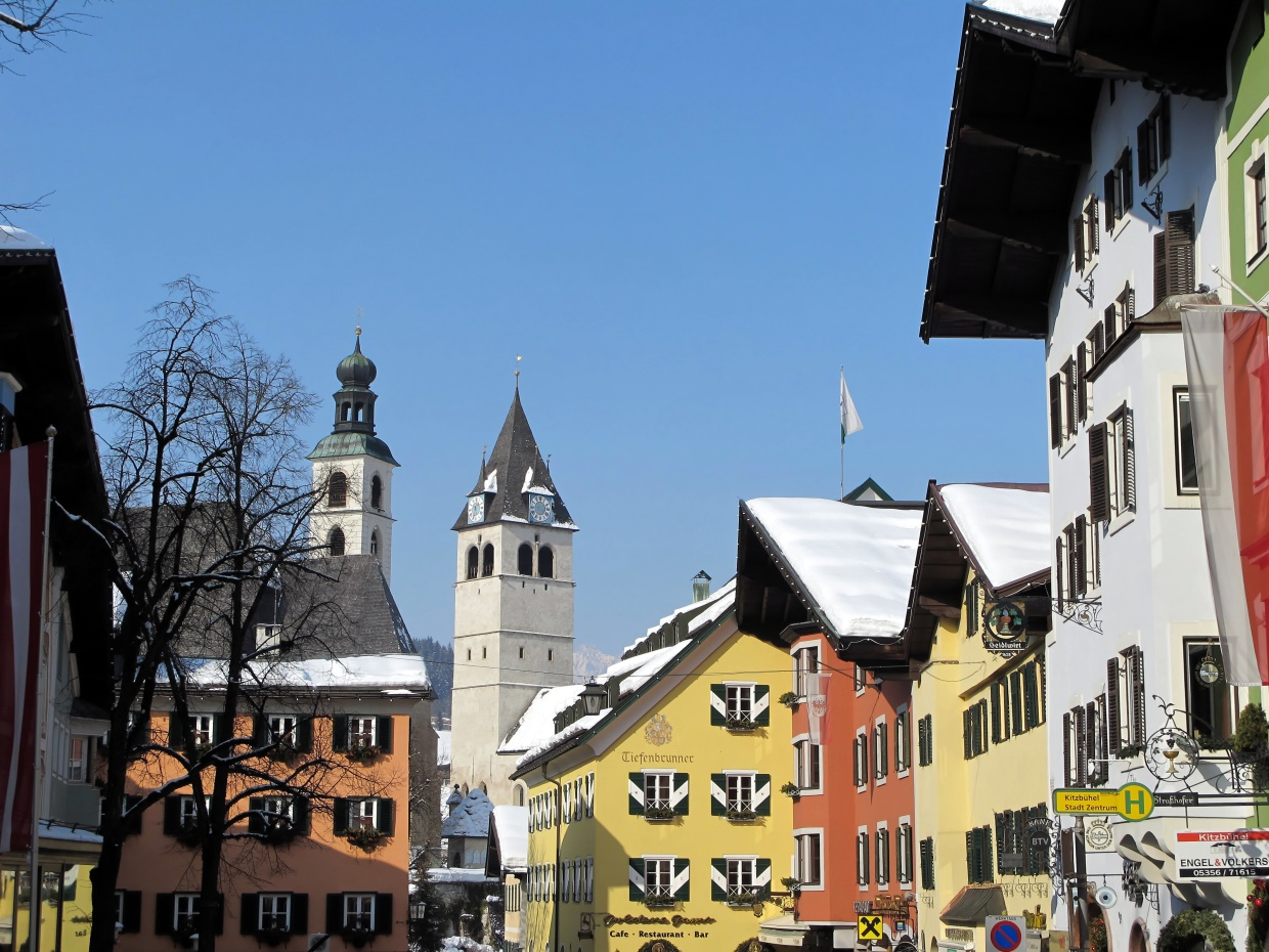 City Kitzbühel, Center: "Vorderstadt"